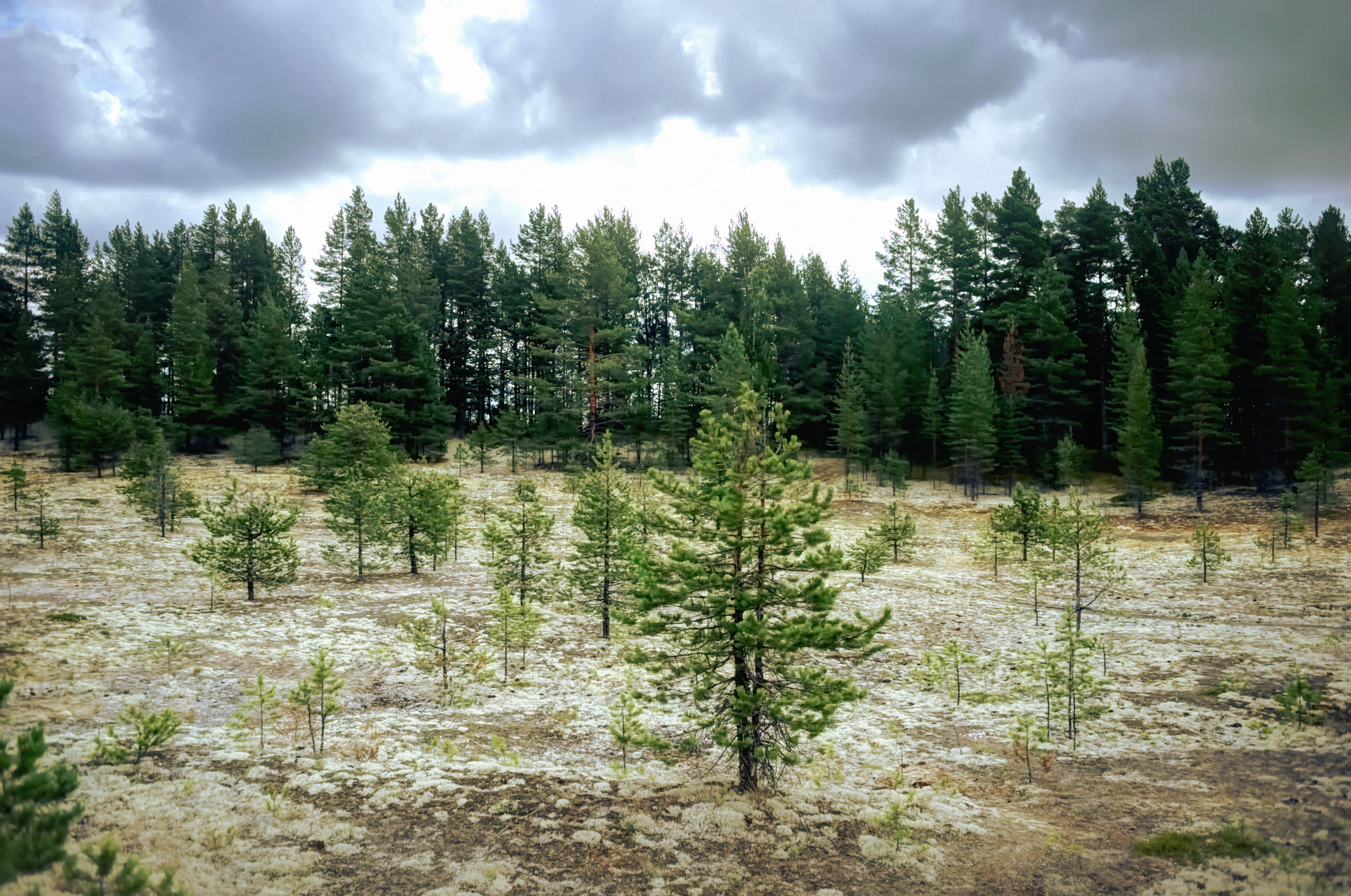 Suopassalmi July 2016